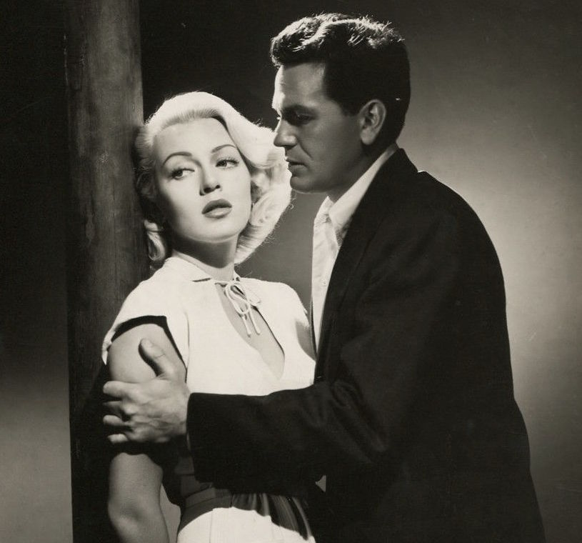 Lana Turner and John Garfield in The Postman Always Rings Twice (1946) publicity photo